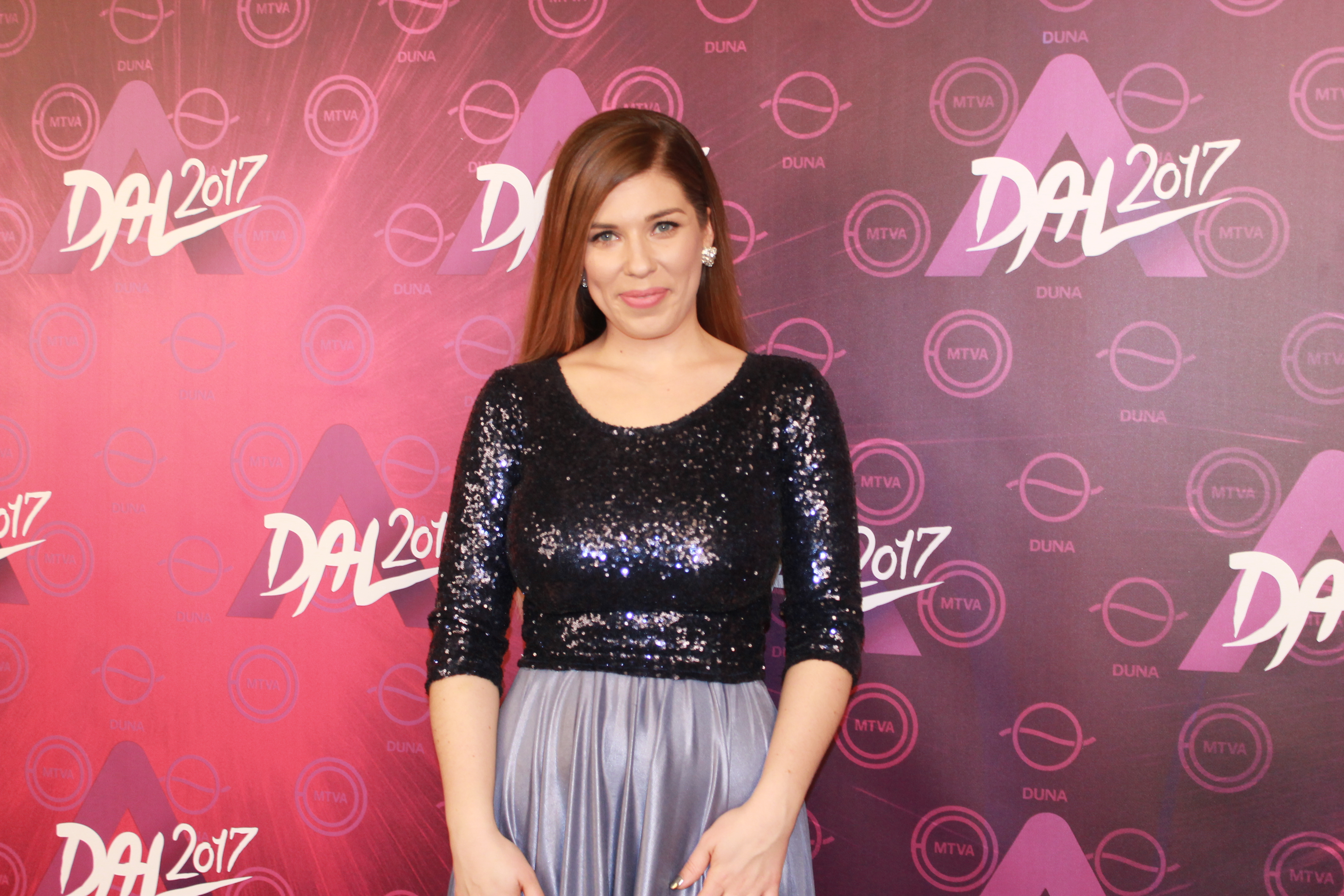 A Dal 2017 participant: Gina Kanizsa